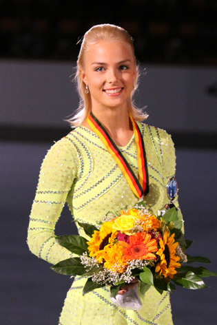 Kiira KORPI (FIN) at the 2009 Nebelhorn Trophy.